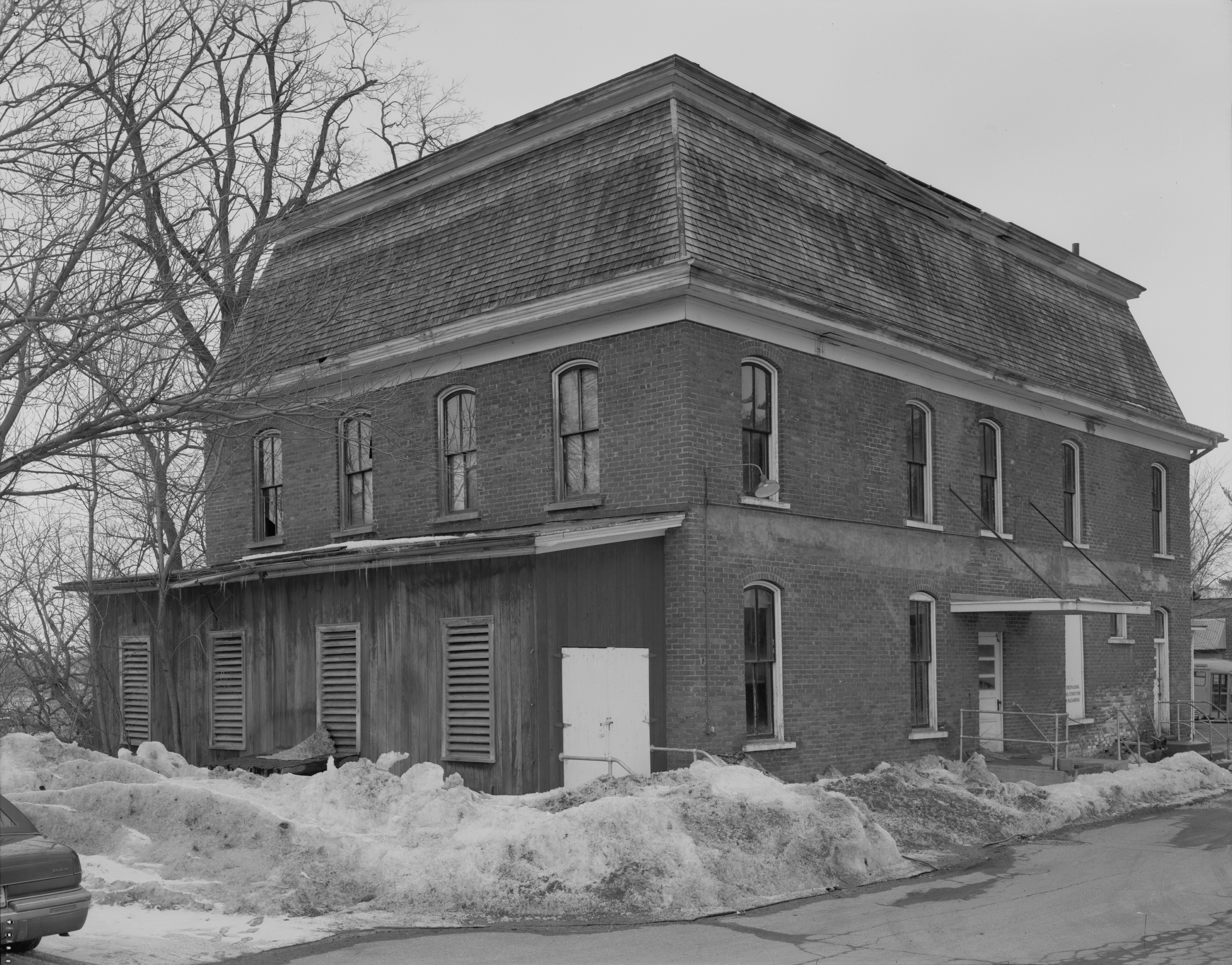 Minnesota State Academy for the Blind, Blind Department Building, 400 Sixth Avenue, Southeast, Faribault, Rice County, MN